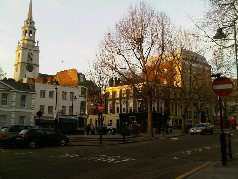 Clerkenwell Green, Londra